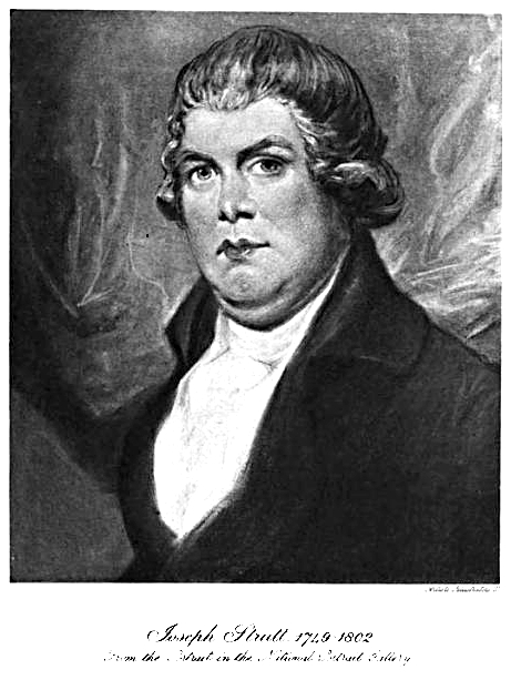 See source description.